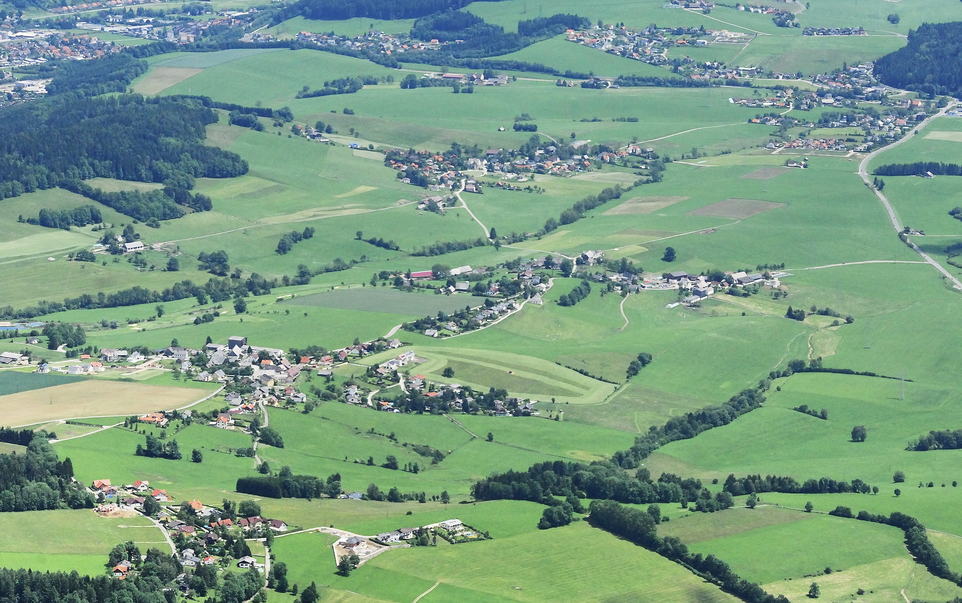 the western part of the basin of Trofaiach